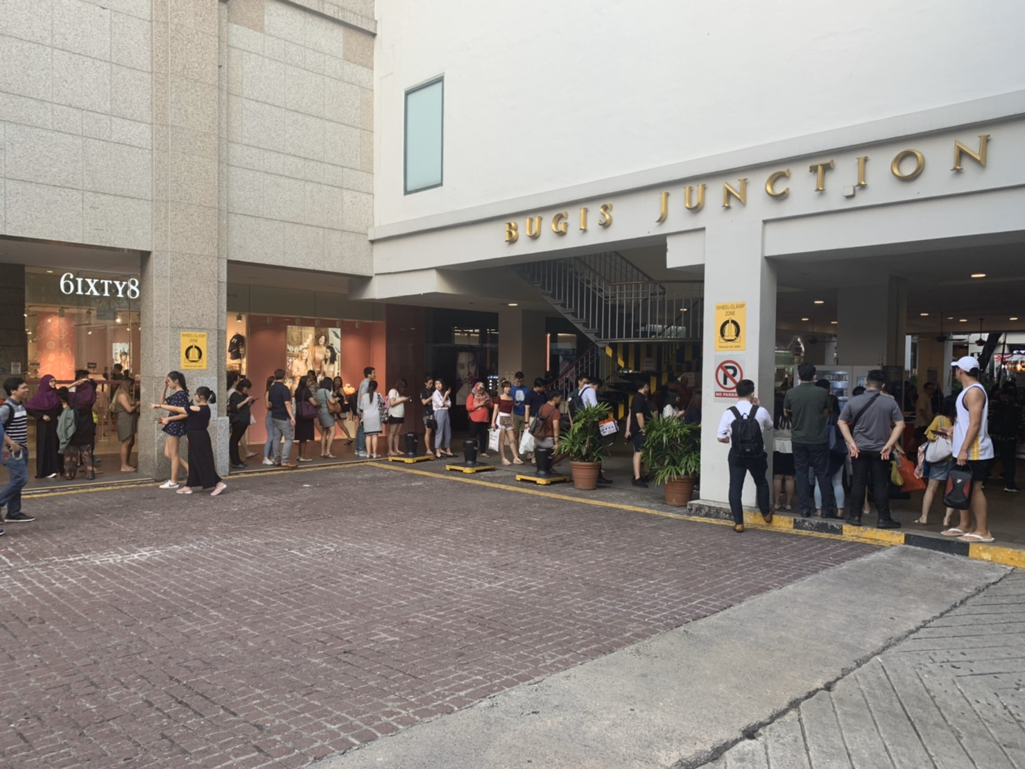 EZ-Link vending machine queue